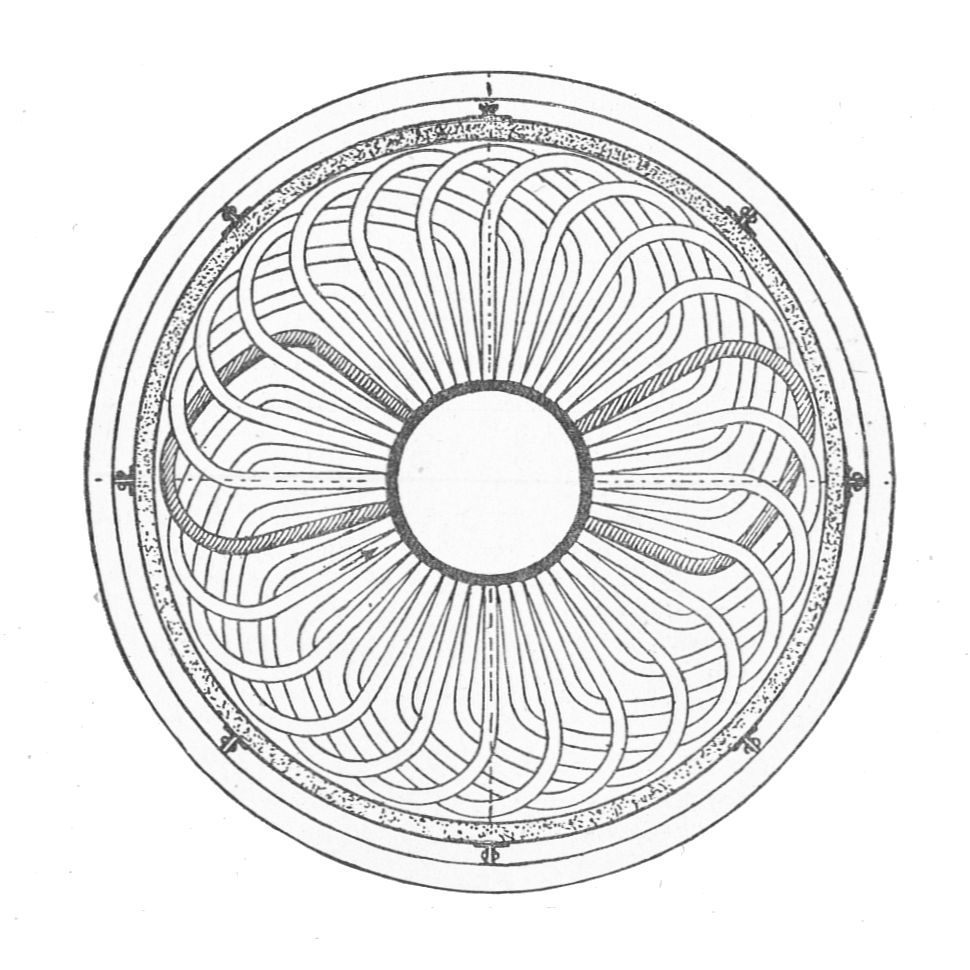 Climax boiler, plan (Rankin Kennedy, Modern Engines, Vol V).jpg